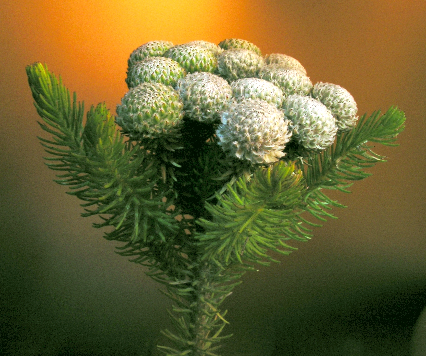 The leaves and the knobby inflorescences of Brunia sp. (family Bruniaceae)